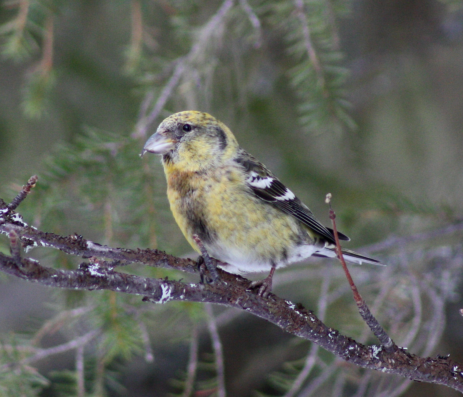 Two-barred Crossbill Loxia leucoptera bifasciata (female) in Kittilä, Finland.